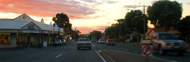 Portrush Road facing north, passing by Glenunga and Linden Park.